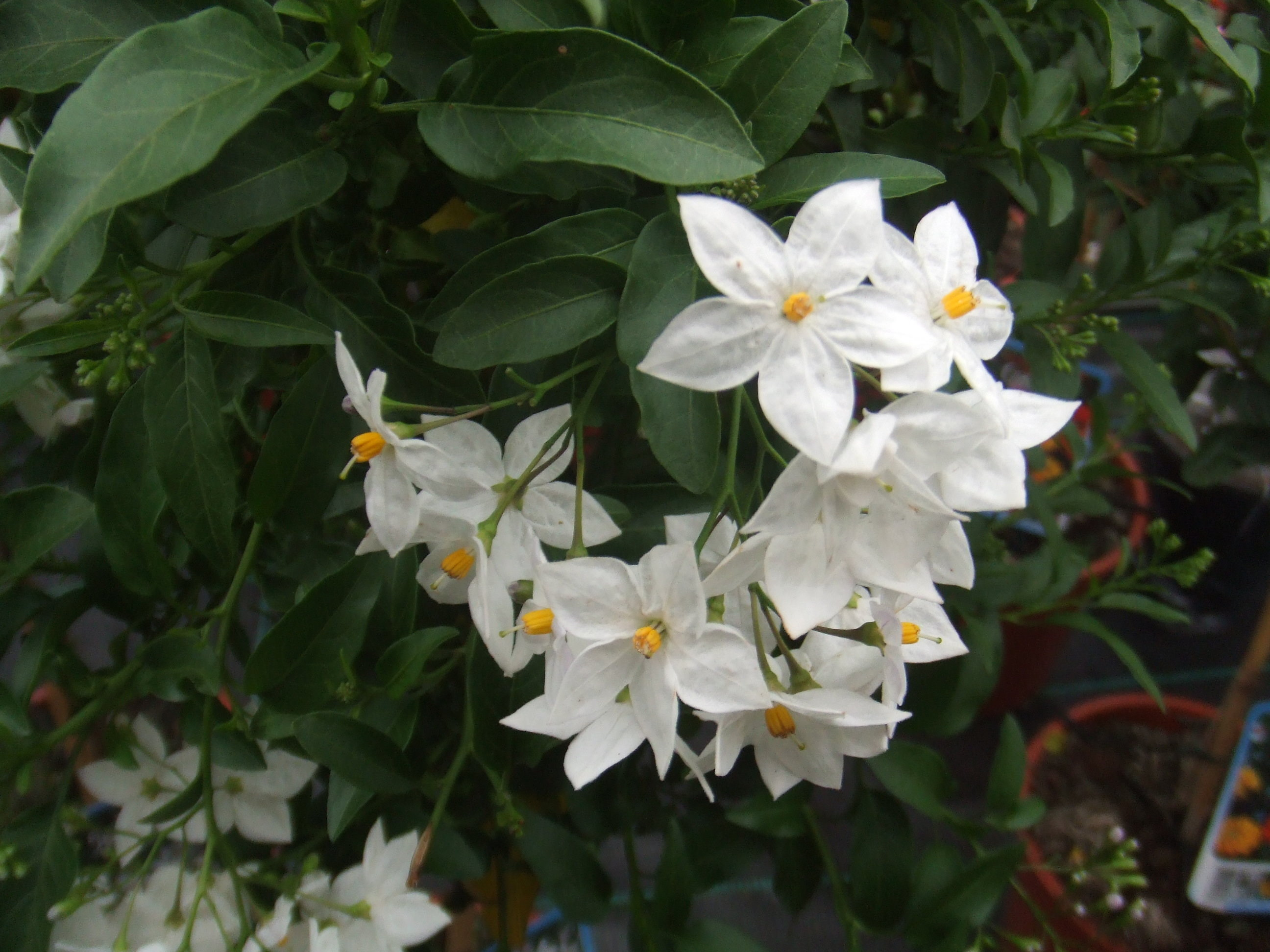 Solanum laxum (Syn. Solanum jasminoides) "Album" photographed at Garden Centre, Rotterdam, The Netherlands